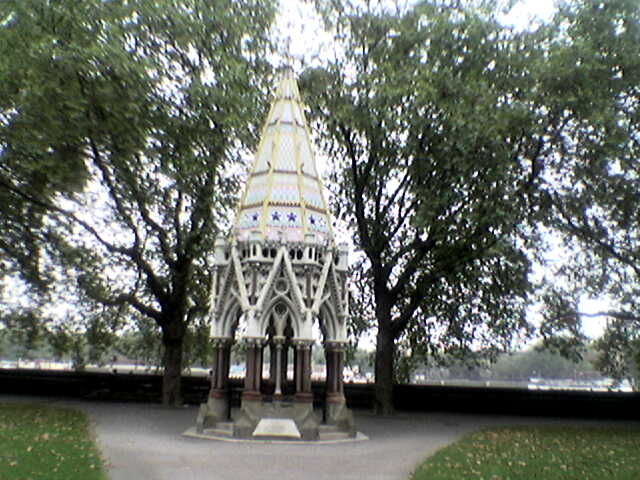 Buxton Memorial Fountain, London